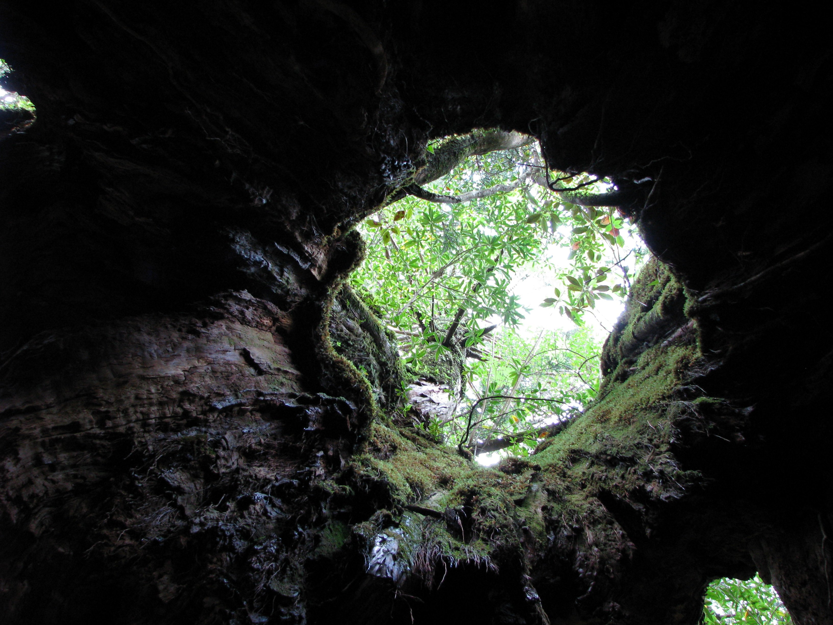 Landscape in and around Shiratani Unsuikyo forest (also known as mononoke hime no mori) on Yakushima.